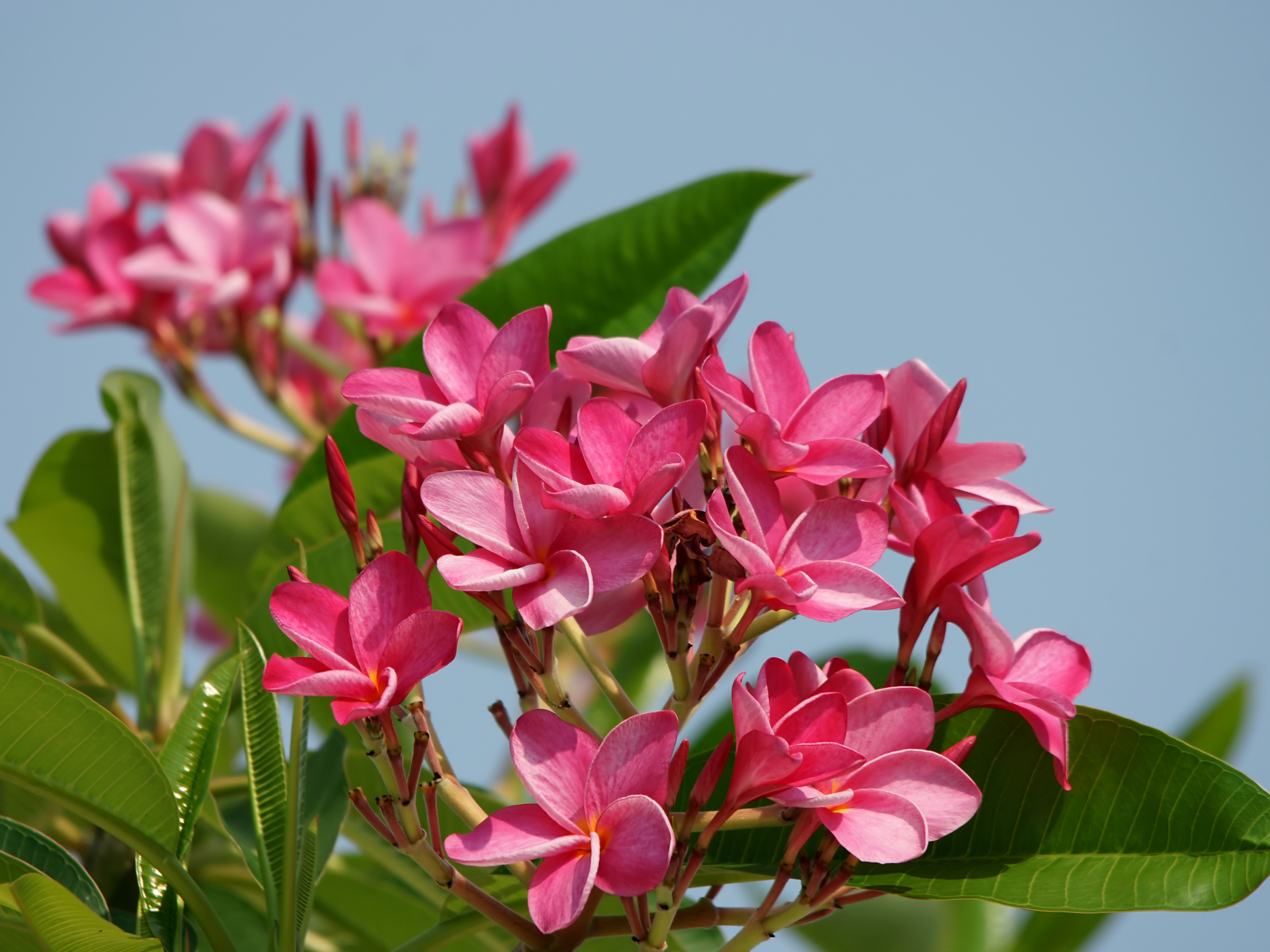 Red Frangipani at Sanibel Island in Lee County, Florida, U.S.A.